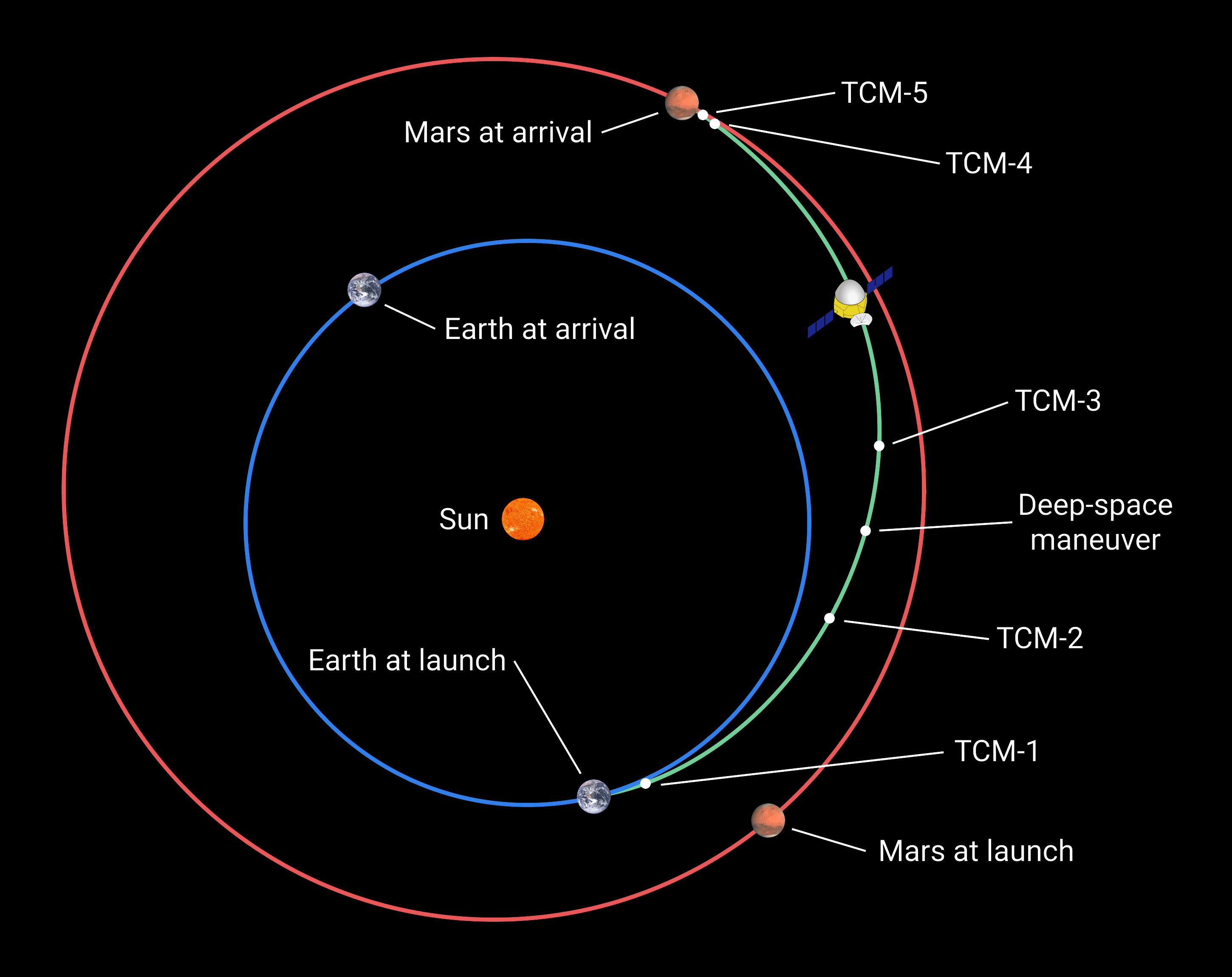 A schema of the transfer orbit between Earth and Mars of China's Tianwen-1 probe and the trajectory correction maneuvers (TCM) along the way.